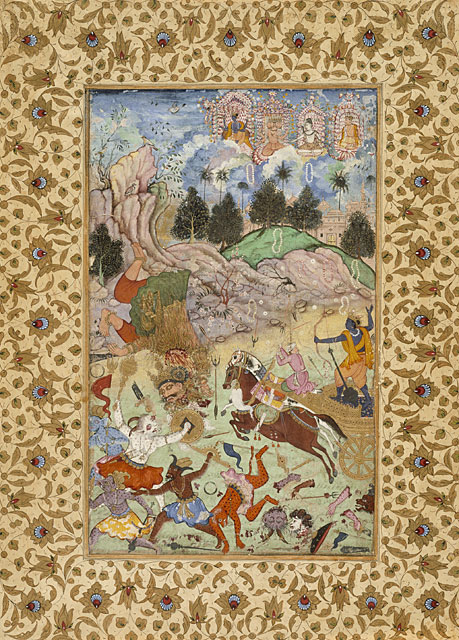 Pakistan, Lahore, Mughal Pradyumna Kills Samvara (recto), Calligraphy (verso), Folio from a Harivamsha (Lineage of Hari [Vishnu]), circa 1585-1590 Painting; Watercolor; Calligraphy, Opaque watercolor, gold, and ink on paper, Sheet: 16 1/8 x 11 3/4 in. (41.96 x 29.85 cm); Image: 11 3/4 x 7 in. (29.85 x 17.78 cm) From the Nasli and Alice Heeramaneck Collection, Museum Associates Purchase (M.83.105.4) South and Southeast Asian Art Department. Not currently on public view Click here for a list of artworks on display in this curatorial collection